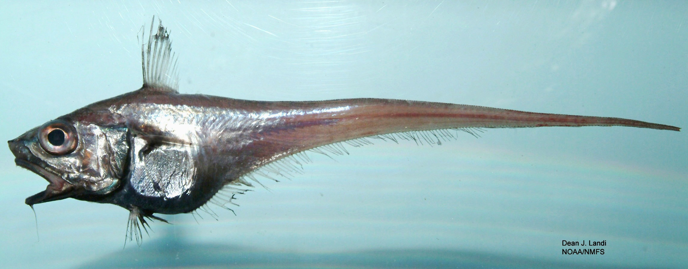 Western softhead grenadier (Malacocephalus occidentalis)